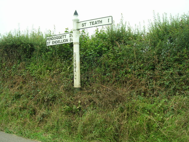 Sign above Treburgett Solid Cornish sign at the junction above Treburgett